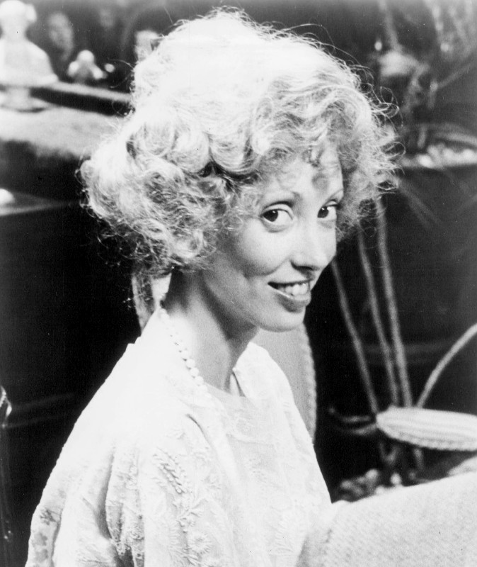 Photo of Shelley Duvall in a television presentation of the F. Scott Fitzgerald story "Bernice Bobs Her Hair".